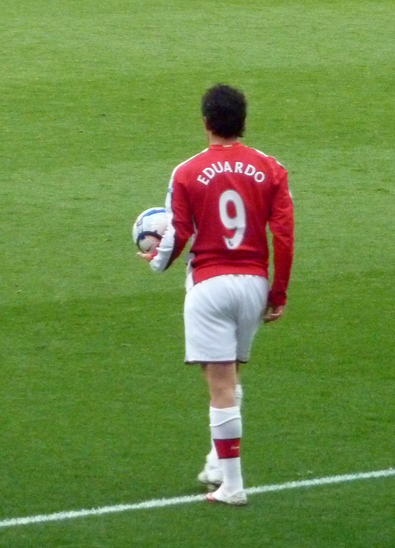 Eduardo da Silva in 2010